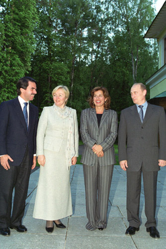 NOVO-OGARYOVO. Vladimir and Lyudmila Putin having an informal meeting with Spanish Prime Minister Jose Maria Aznar and wife Ana Botella.